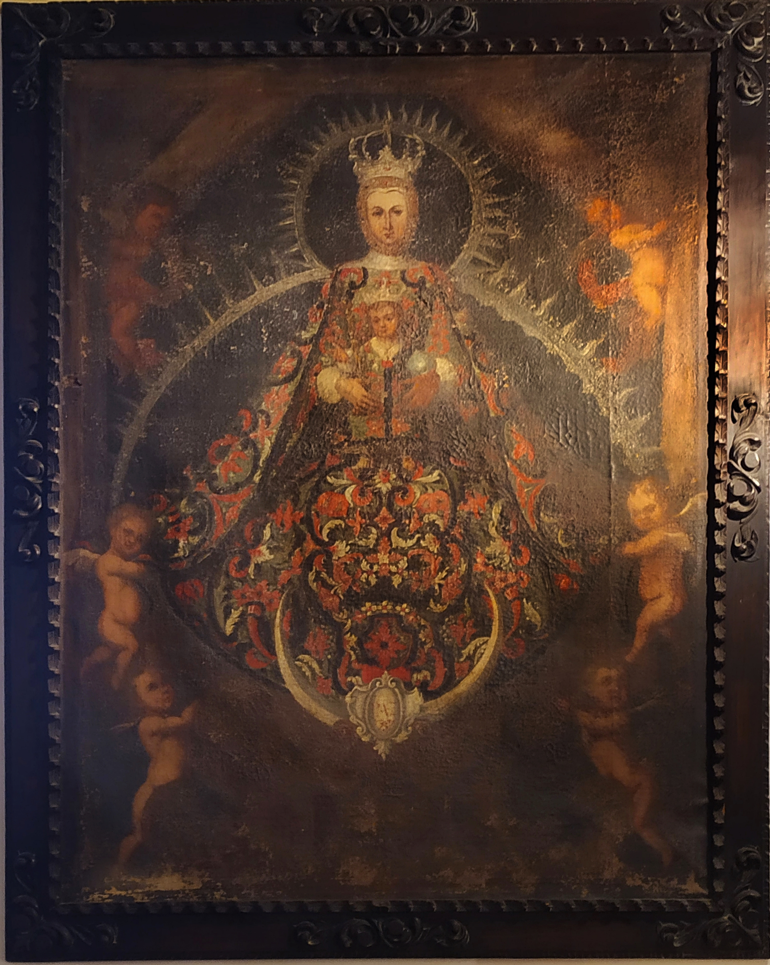 Esta pintura es la más antigua que se conoce de la Virgen de la Paz. probablemente de finales del S. XVI - XVII